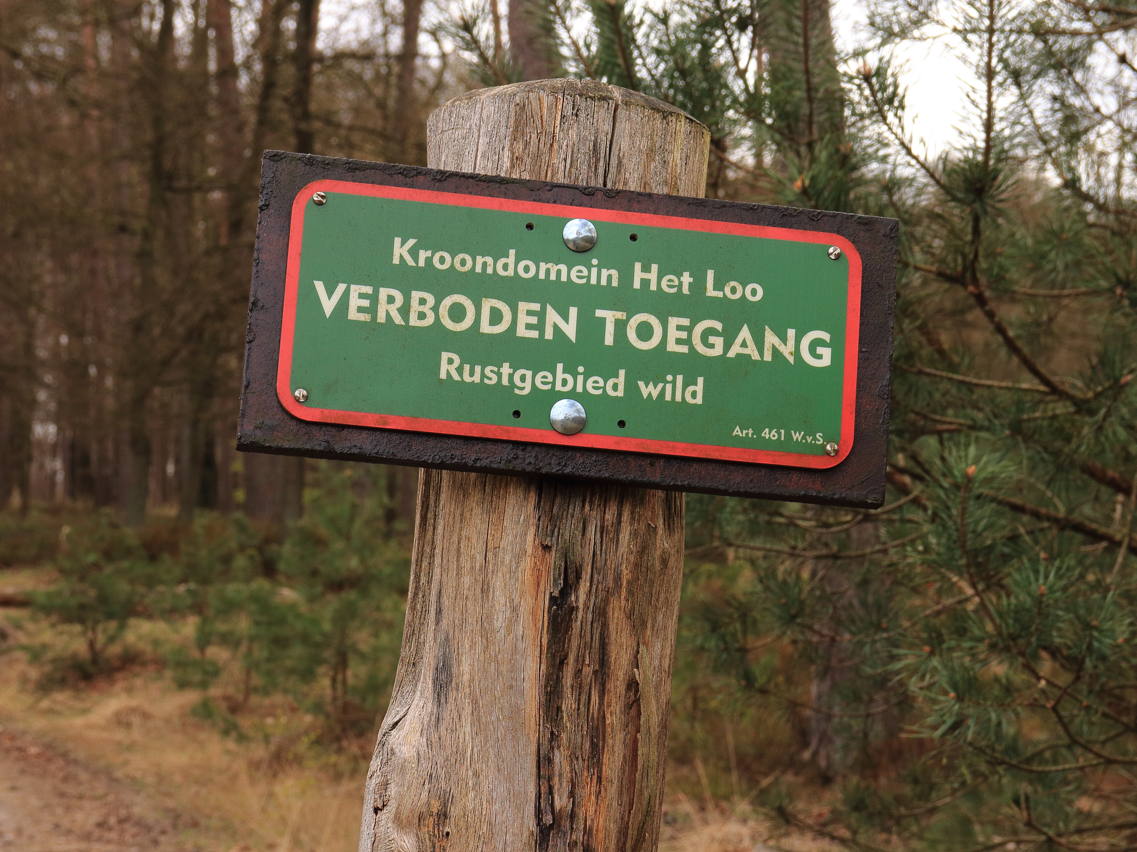 Kroondomein. Rest area for wildlife.